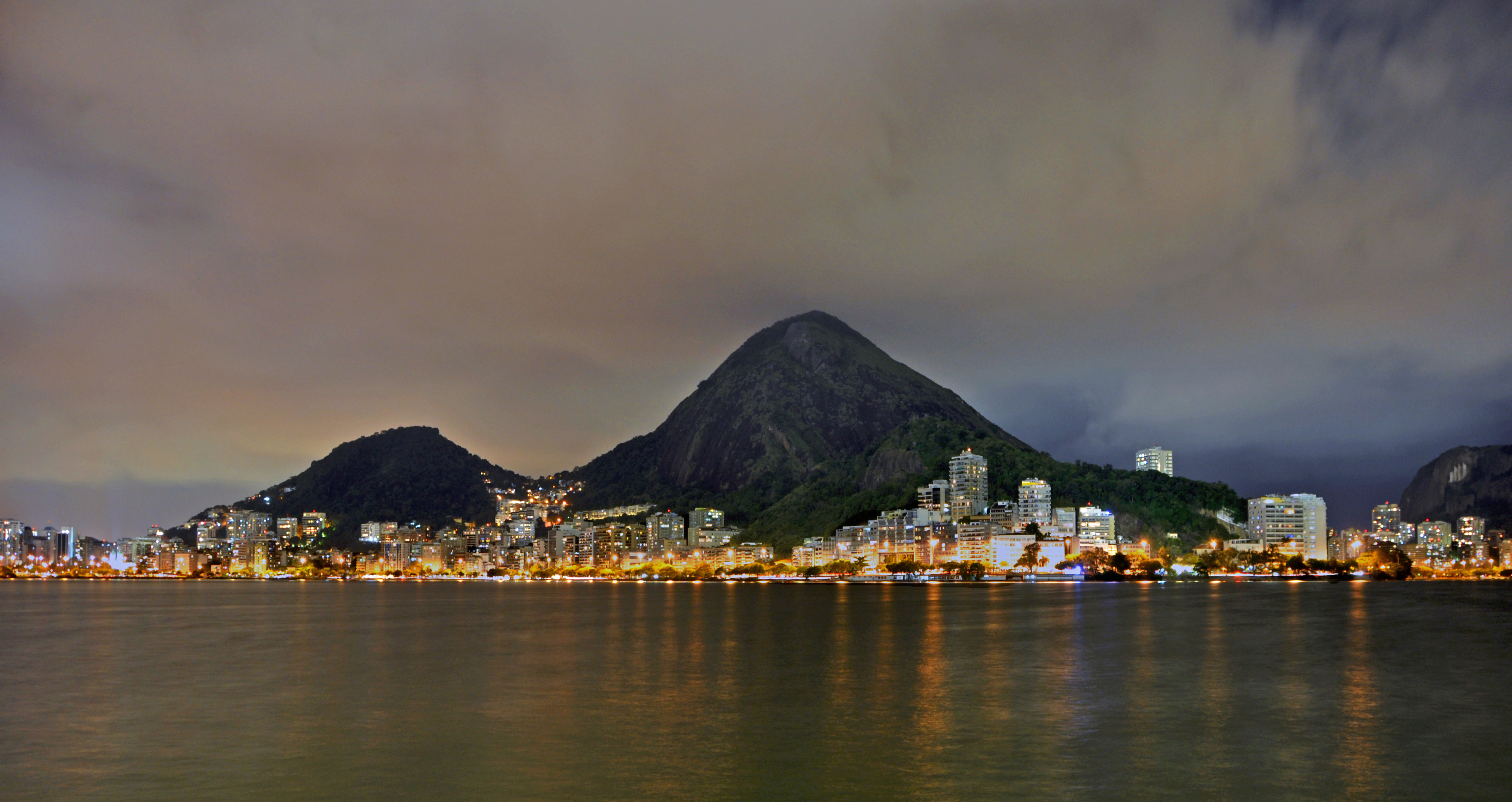 lagoa rodrigo de freitas lagoon rio de janeiro night panorama 2010